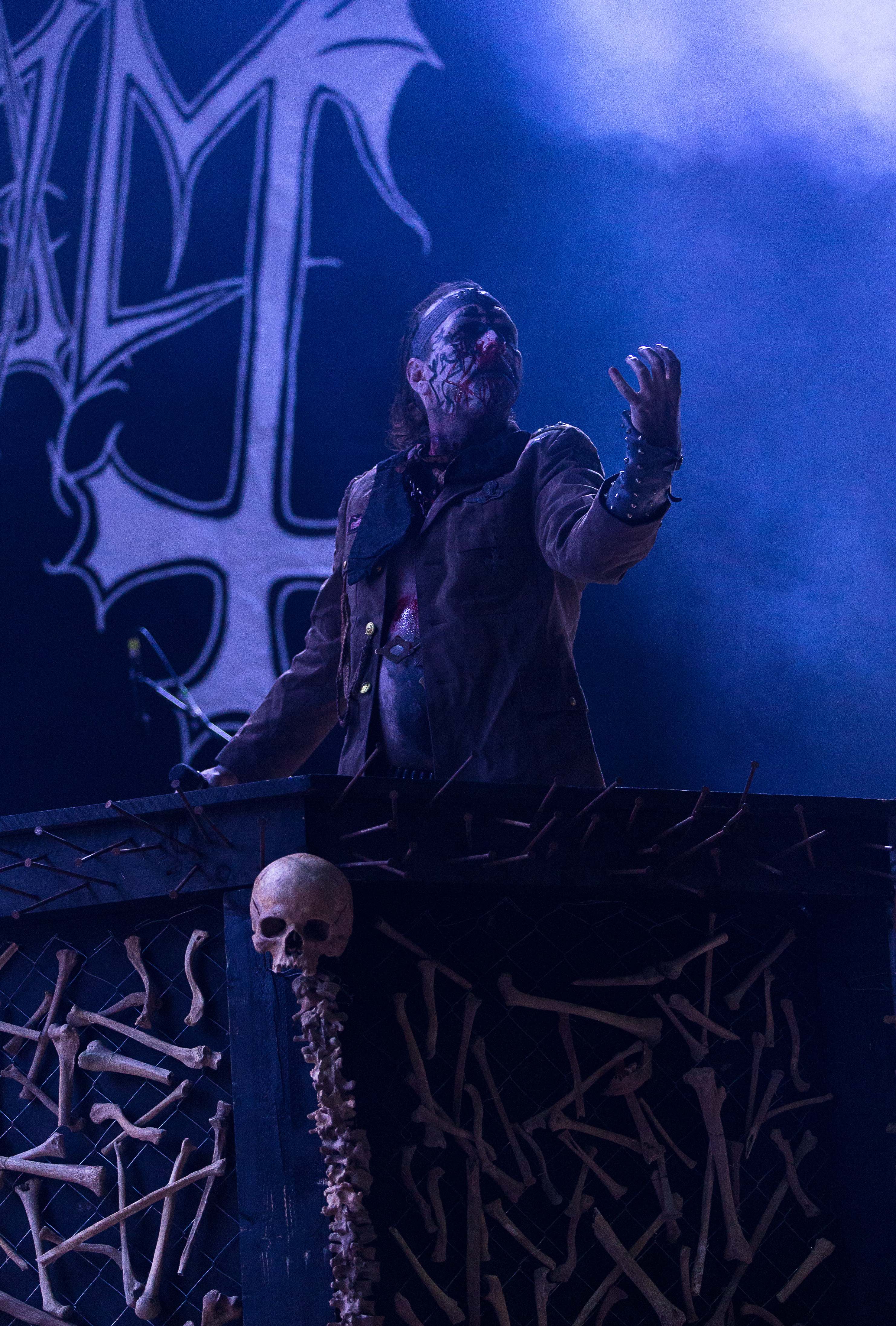 The Norwegian extreme metal band Mayhem at the Party.San Open Air 2015 in Obermehler-Schlotheim/Germany.